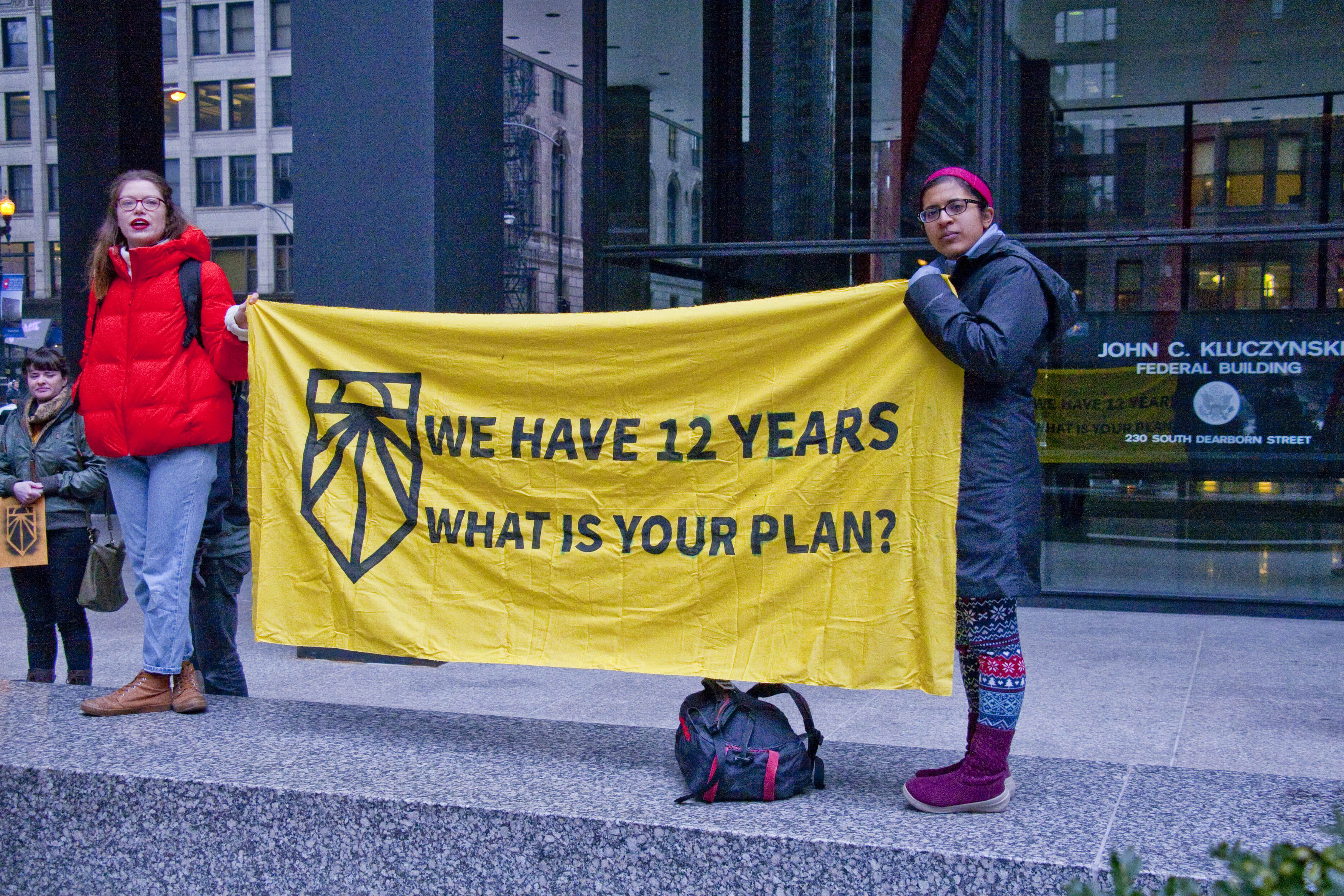 Banner "We have 12 years left, what is you plan?". Chicago Sunrise Movement rallies for a Green New Deal, in Chicago (Illinois), 27 February 2019.